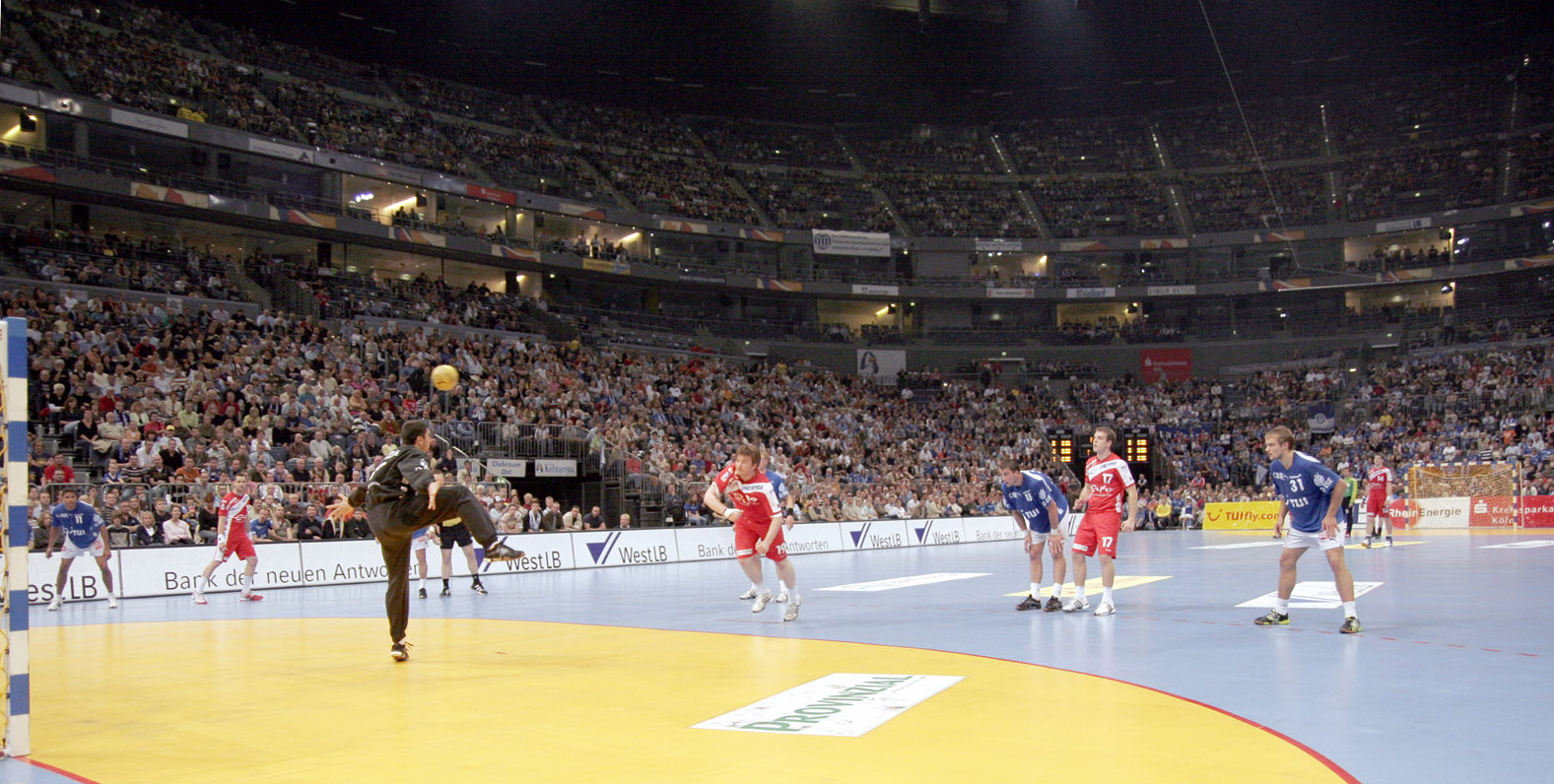 The Kölnarena in Cologne (Germany) during a handball game (VfL Gummersbach - HSG Nordhorn)